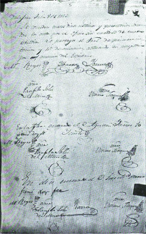 Forged document used as evidence supporting the validity of the Peralta land grant. Page is from the probate proceedings for the 1st Baron of Arizona. Expert analysis concluded the page was from a valid but unknown source and modified to include the page number in the top right and the key term "Lo" in the bottom right.